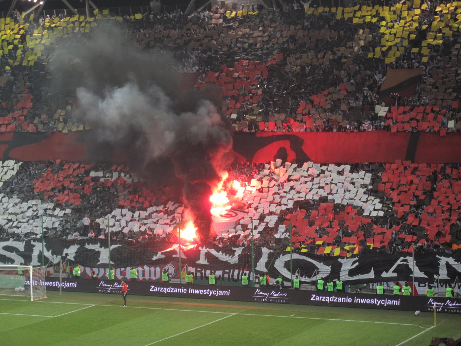 Legia Warsaw fans.